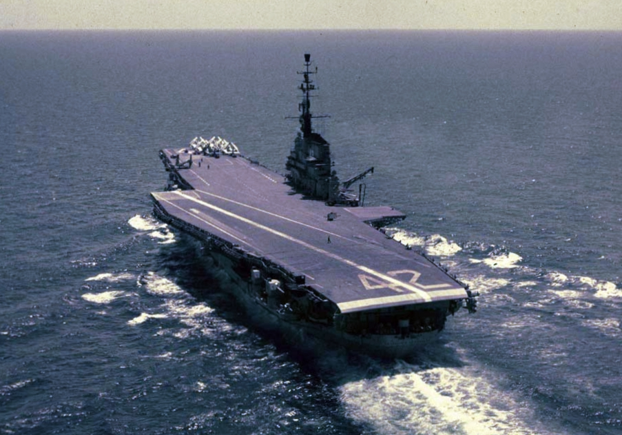 The U.S. Navy aircraft carrier USS Franklin D. Roosevelt (CVA-42) underway after her SCB-110 conversion. Note the landing mirror on the flight deck.